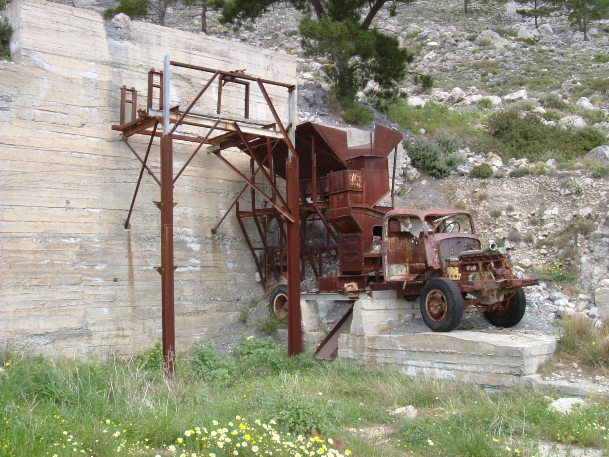 Creative use of an old truck for the grinding of stones from a quarry in the hills of Crete, Greece